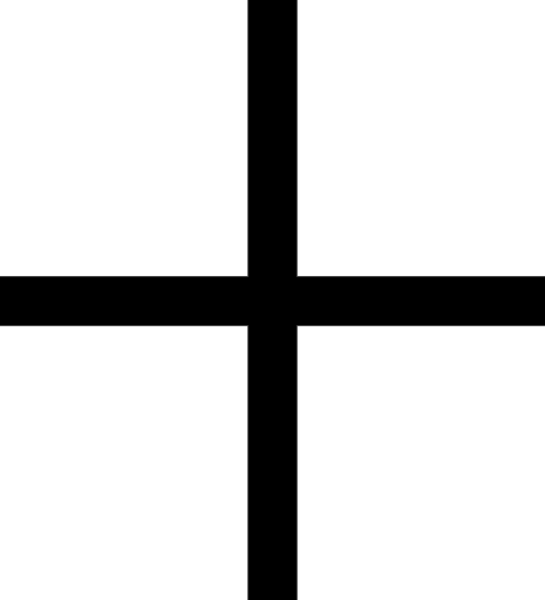 Diminutive heraldic cross